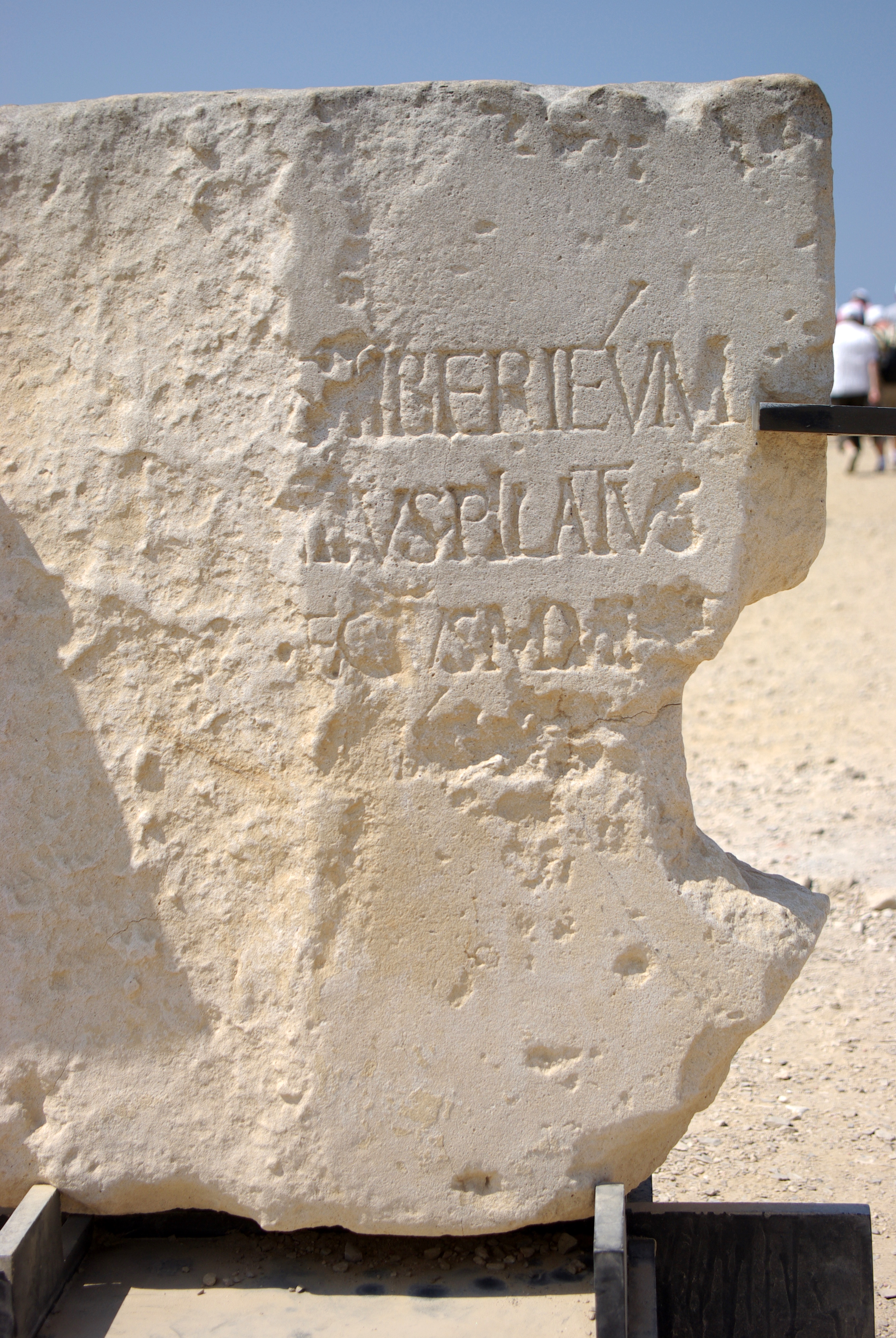 Caesarea maritima, Stone with engravement of the name of Pontius Pilatus 2nd Line: ...vs Pilatvs